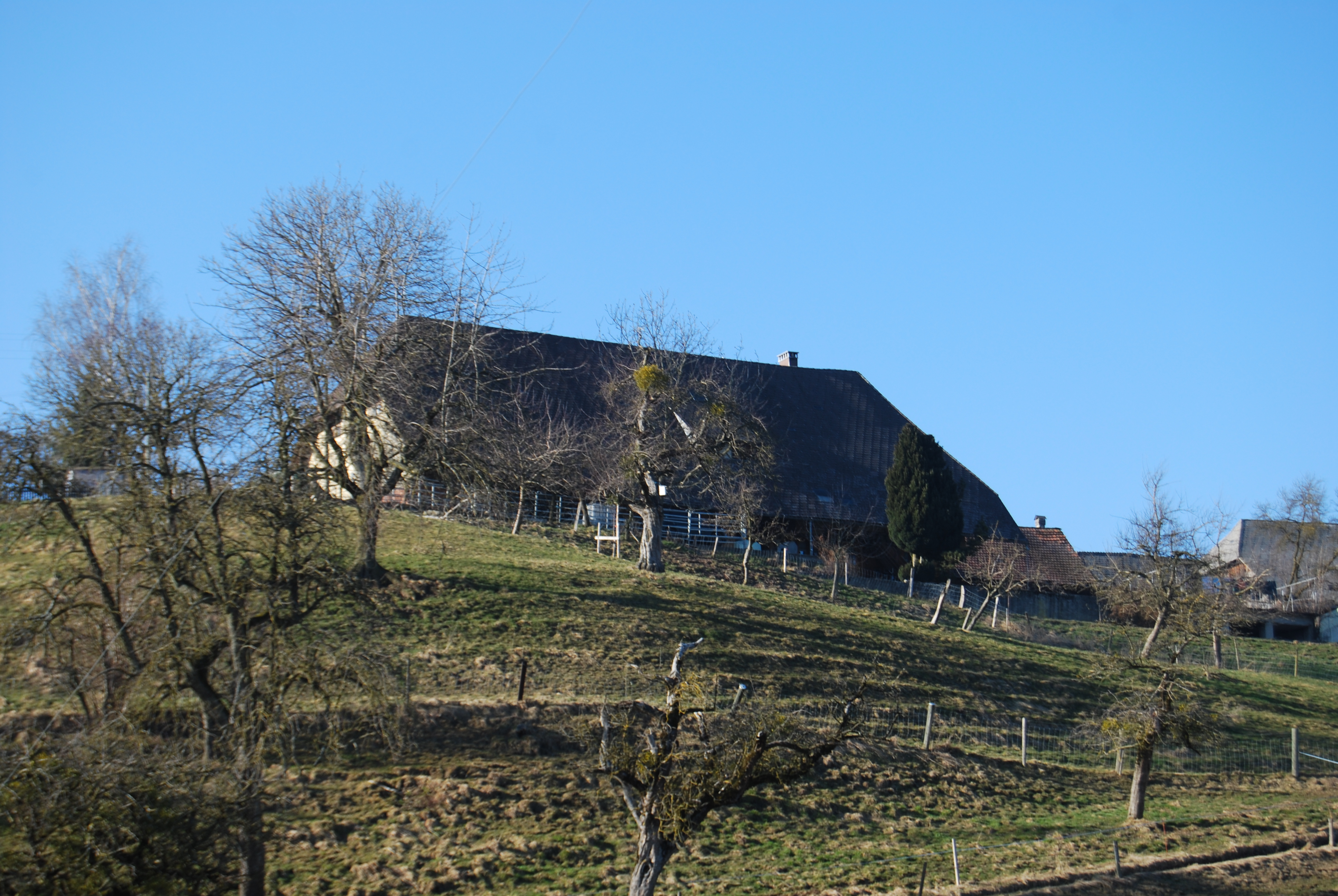 Walterswil, canton of Bern, SwitzerlandEsperanto: Walterswil, Kantono Berno, Svislando